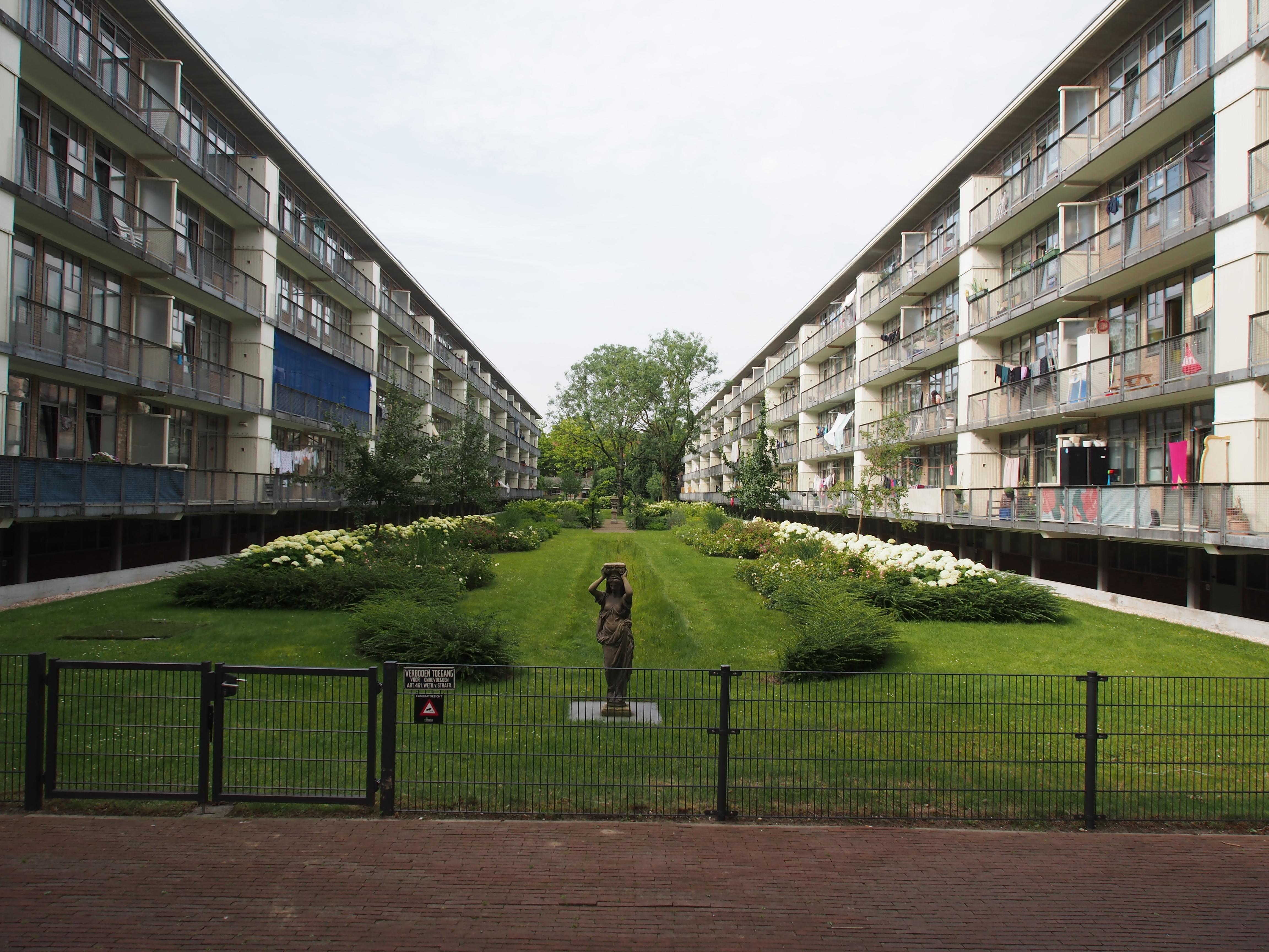 Photographed in Amsterdam.